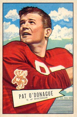 American football player Pat O'Donahue on a 1952 Bowman Large card.